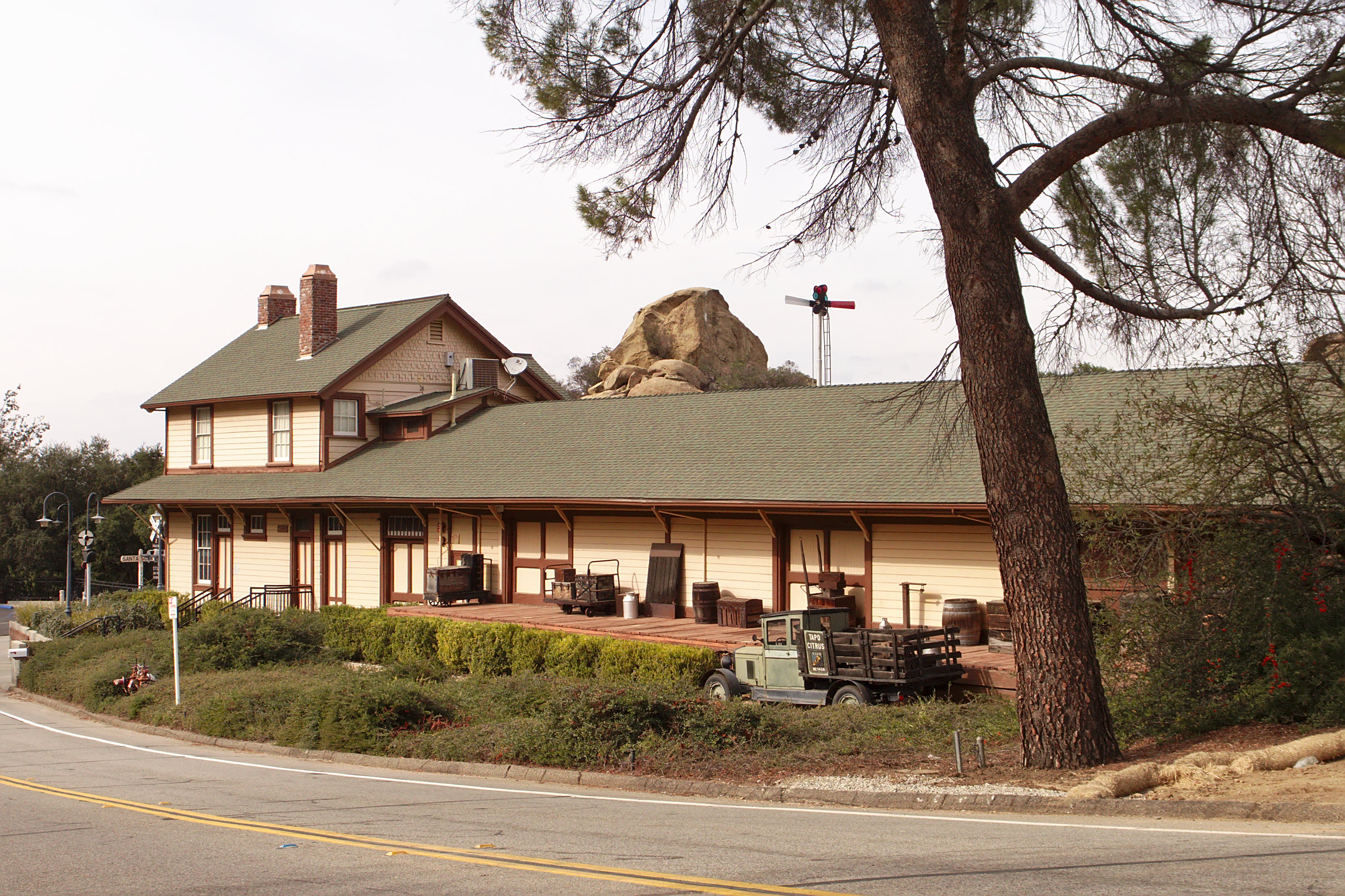 Santa Susana Depot viewed from the southeast.